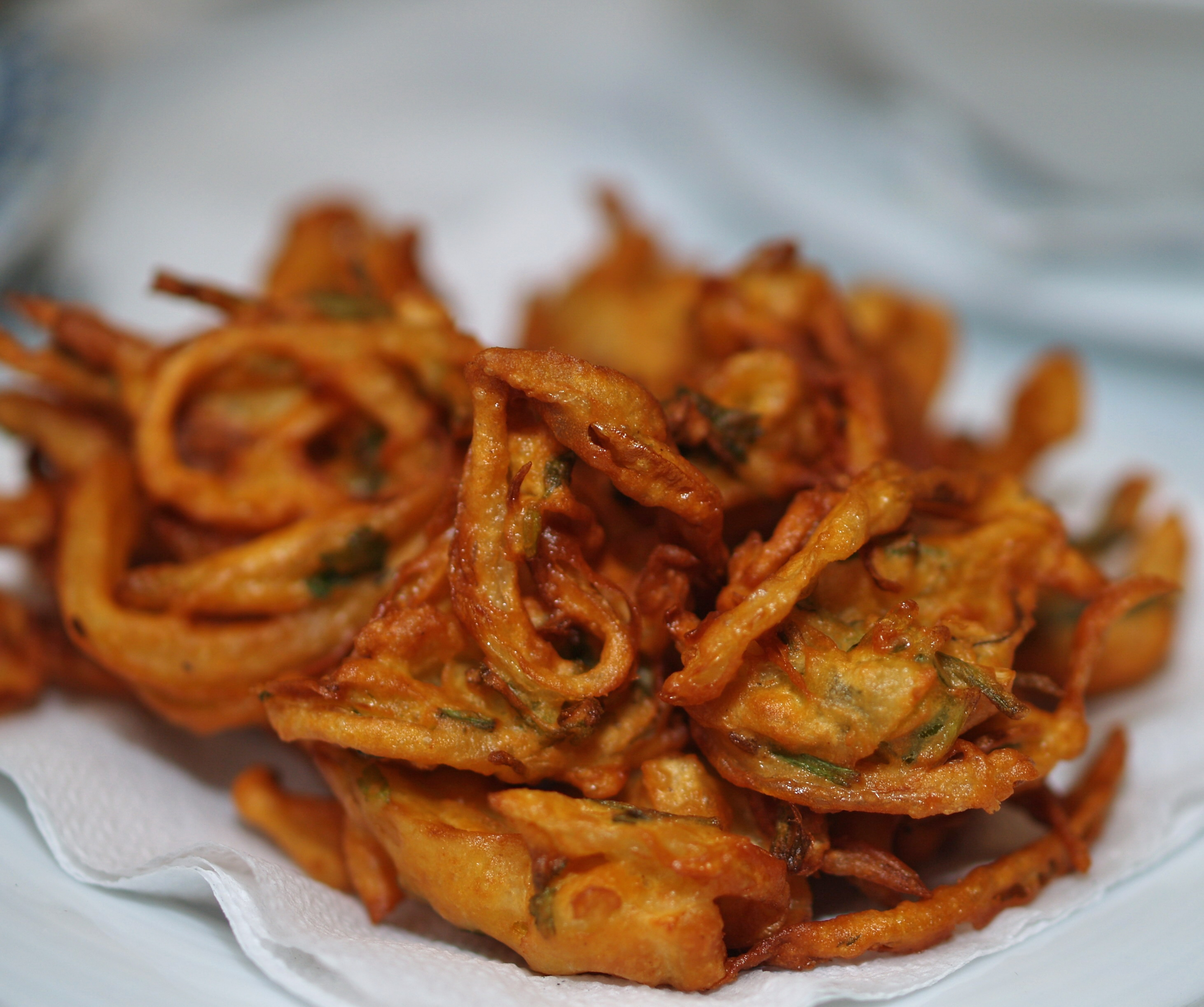 Bogés, a fried snack from Goa, India, photographed in Lisbon, Portugal